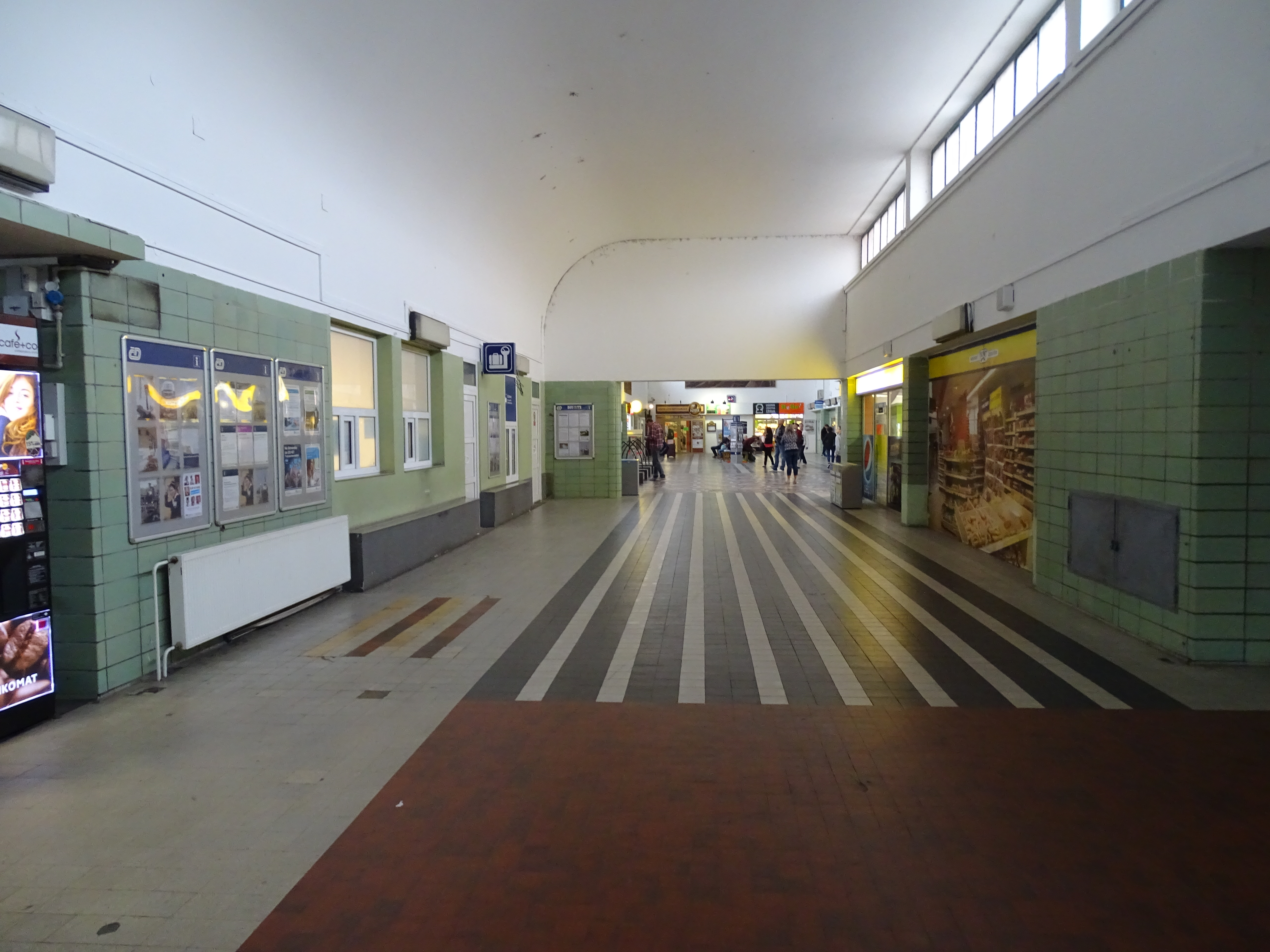 Kolín IV, Kolín District, Central Bohemian Region, Czechia, train station Kolín.